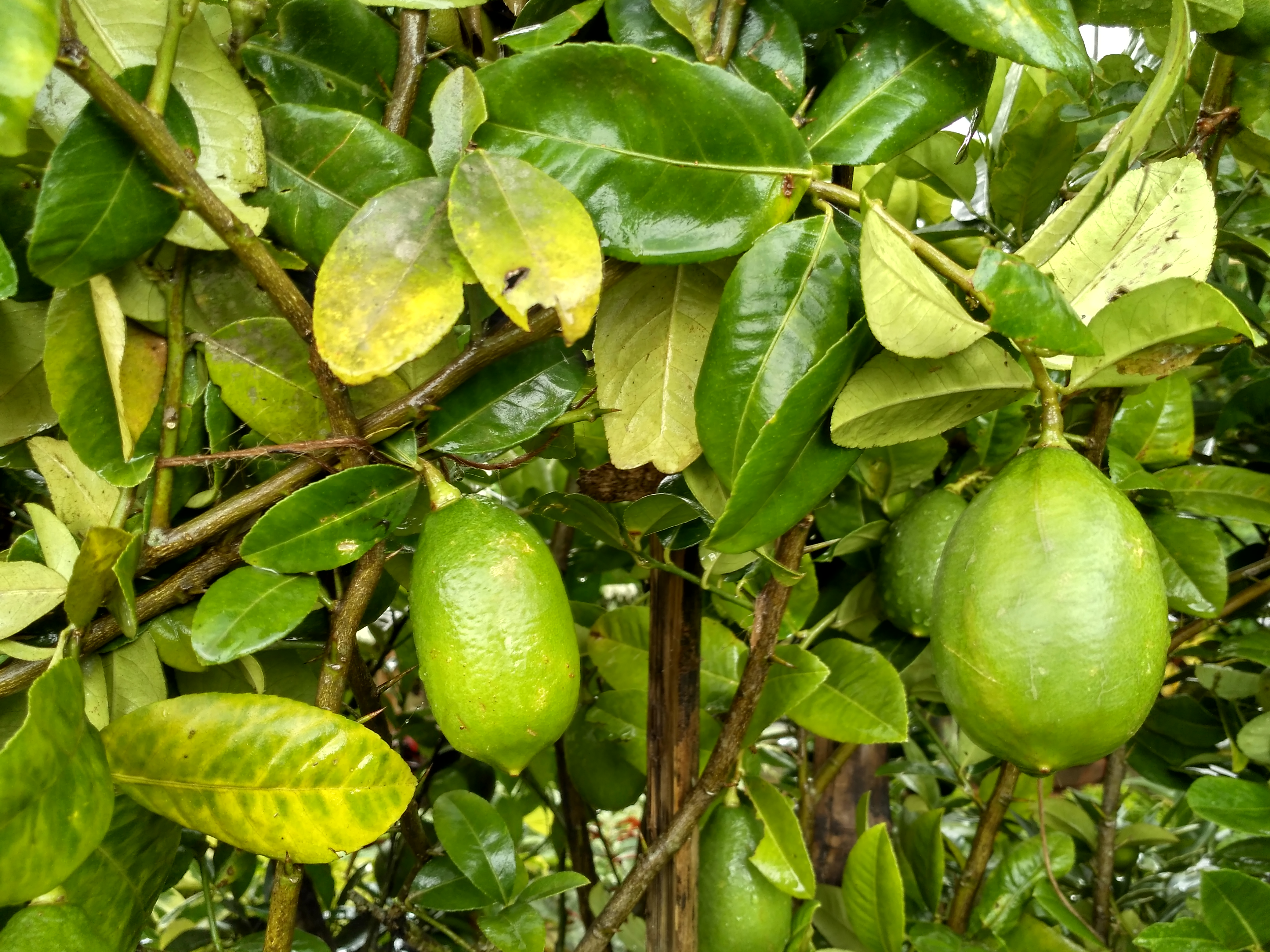 A picture of Lemons with leaves . This photo was captured from National Tree Fair 2018, at Sher-e-Bangla Nagar, Dhaka, Bangladesh. Bangla : লেবু।